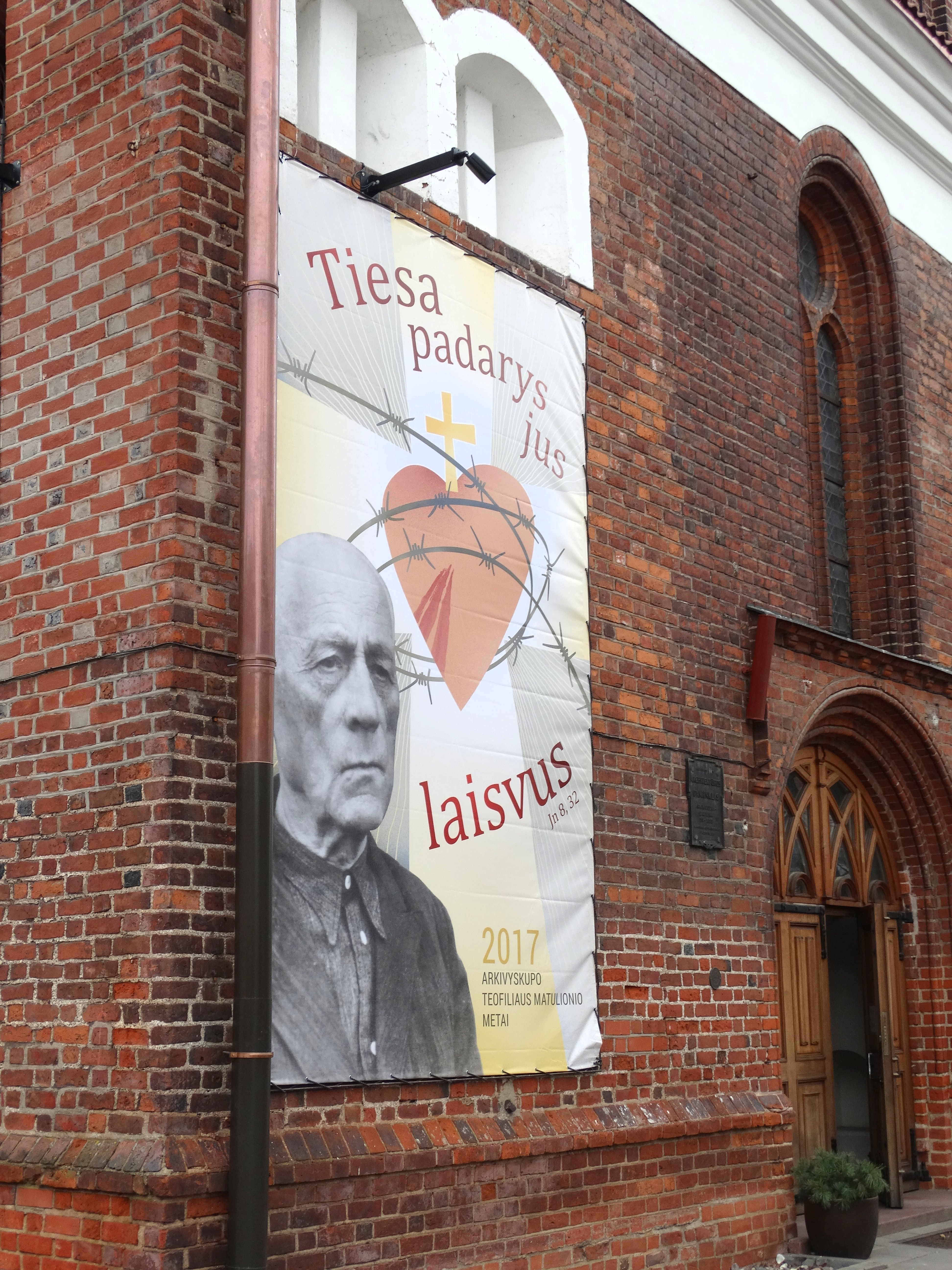 Archbishop Teofilius Matulionis' year, Kaunas Cathedral, Lithuania